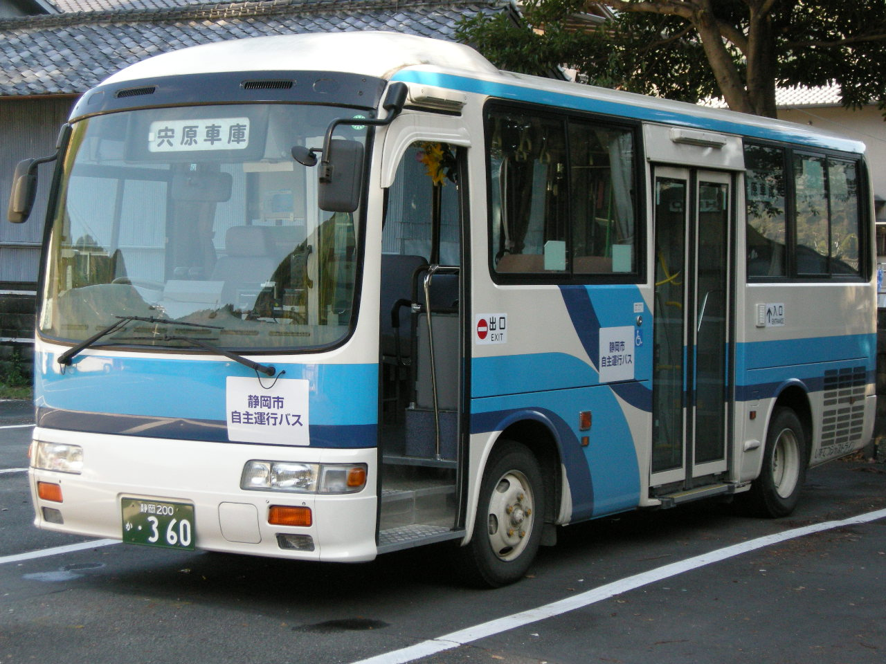 Shizutetsu Justline, operated by Shizuoka city